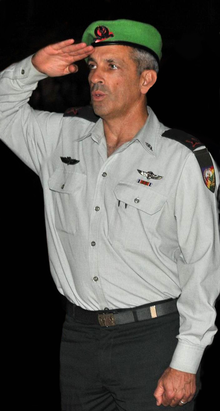 September 19, 2011 A memorial ceremony for fallen soldiers of the Kfir Infantry Brigade was attended by high-ranking IDF officers and their families. Addressing the crowd last night, IDF Chief of Staff Lt. Gen. Benny Gantz said, "Your loved ones fought bravely and will always be remembered." Pictured: Lt. Gen. Benny Gantz, IDF Central Commander Maj. Gen. Avi Mizrachi and Kfir Brigade Commander Col. Udi Ben-Mucha. Photo by Cpl. Iris Lainer, IDF Spokesperson Unit